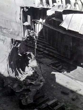 The U.S. Navy heavy cruiser USS Chicago (CA-29) in drydock at Cockatoo Island Dockyard, Sydney (Australia), showing her damaged bow after damage sustained when torpedoed in the course of the Battle of Savo.